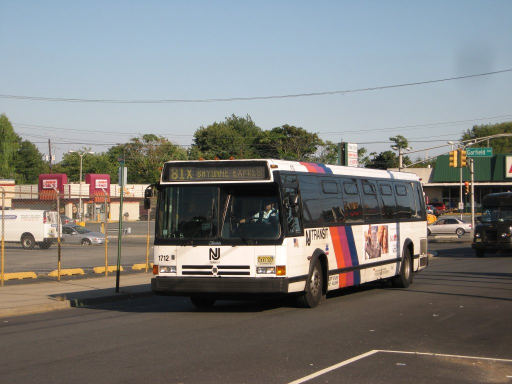 New Jersey Transit Flxible Metro-B transit 1712 on West 55 Street at Garfield Avenue on the 81X in Bayonne, NJ.